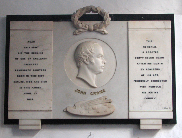 St George Colegate, Norwich - C19 memorial